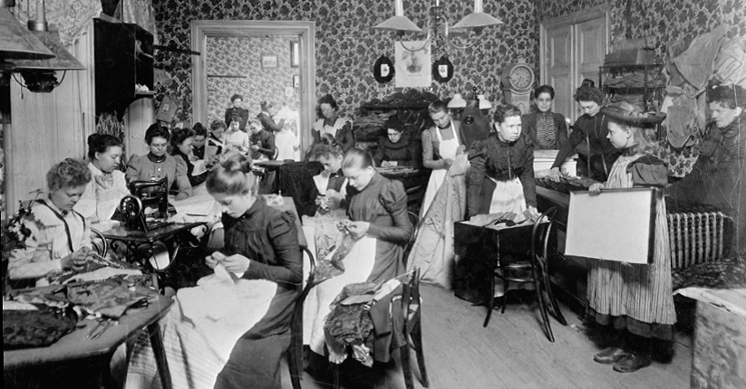 Augusta Lundin's sewing room at Brunkebergstorg in Stockholm around 1900. The picture shows seamstresses, tailor's dummy samples and cloth cutters in full work. The company supplied the entire Stockholm society, including royalty, with the principal to clothes.